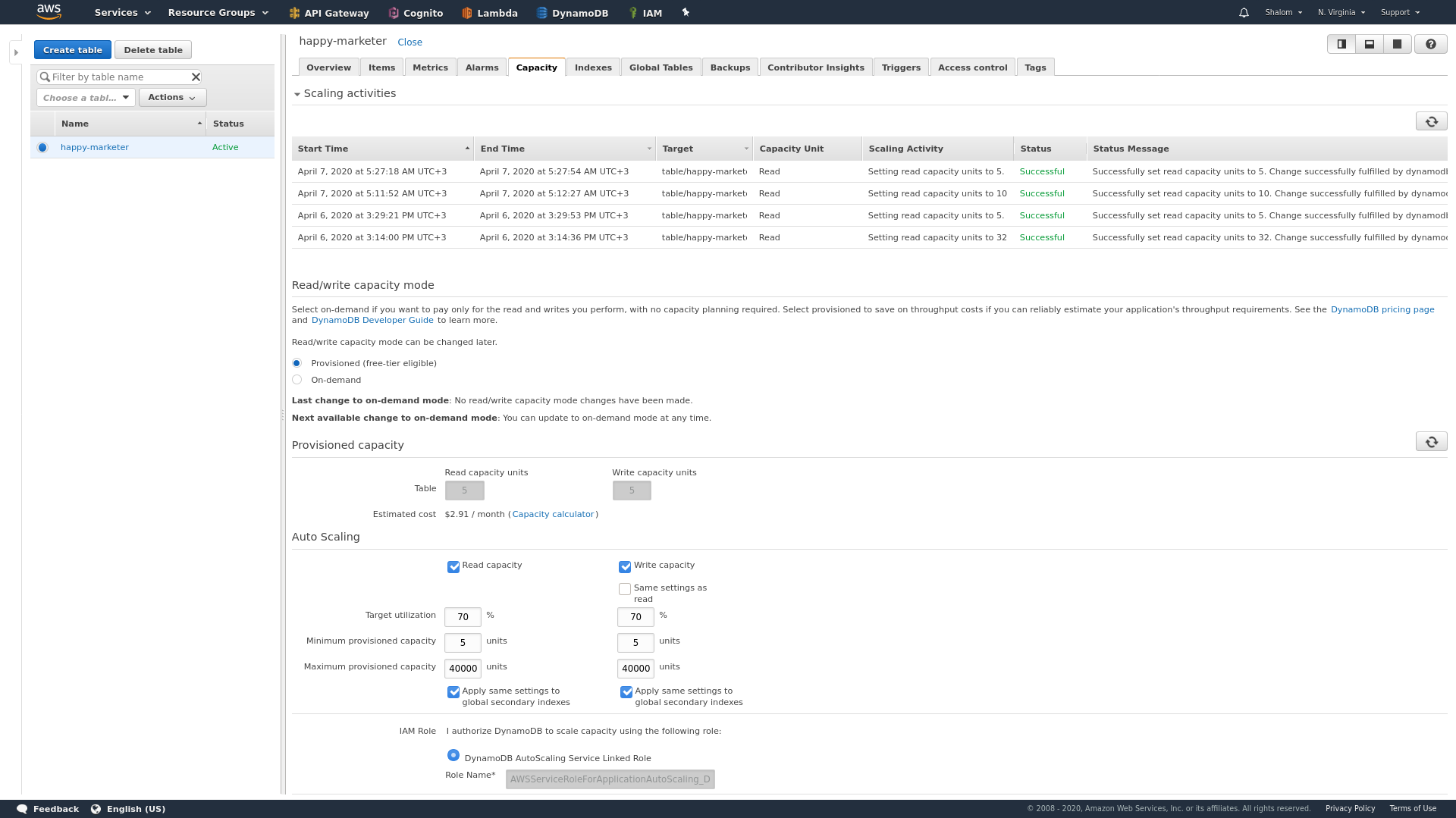 Capacity tab.